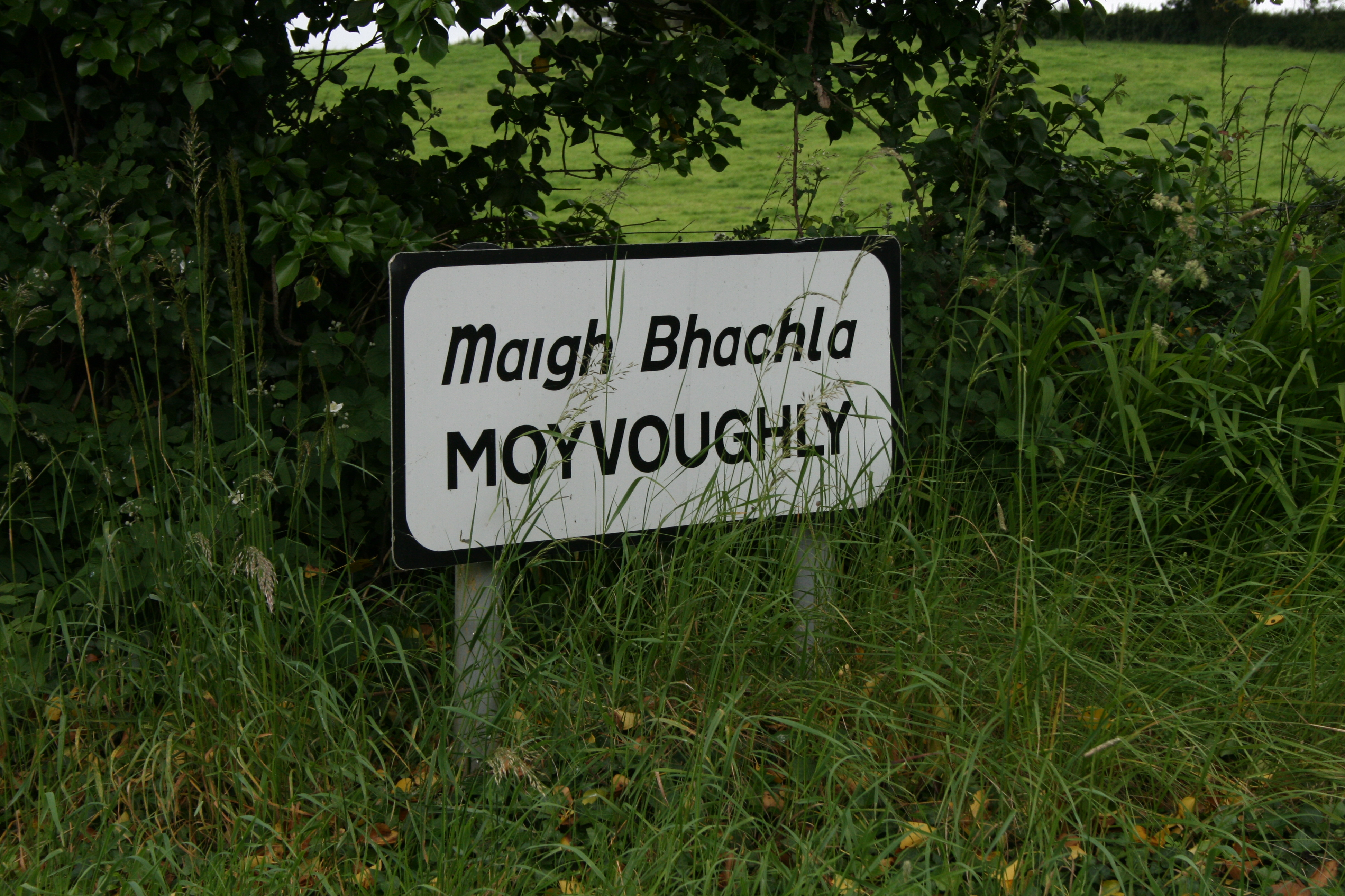 Sign for the Invisible Village of Moyvoughly